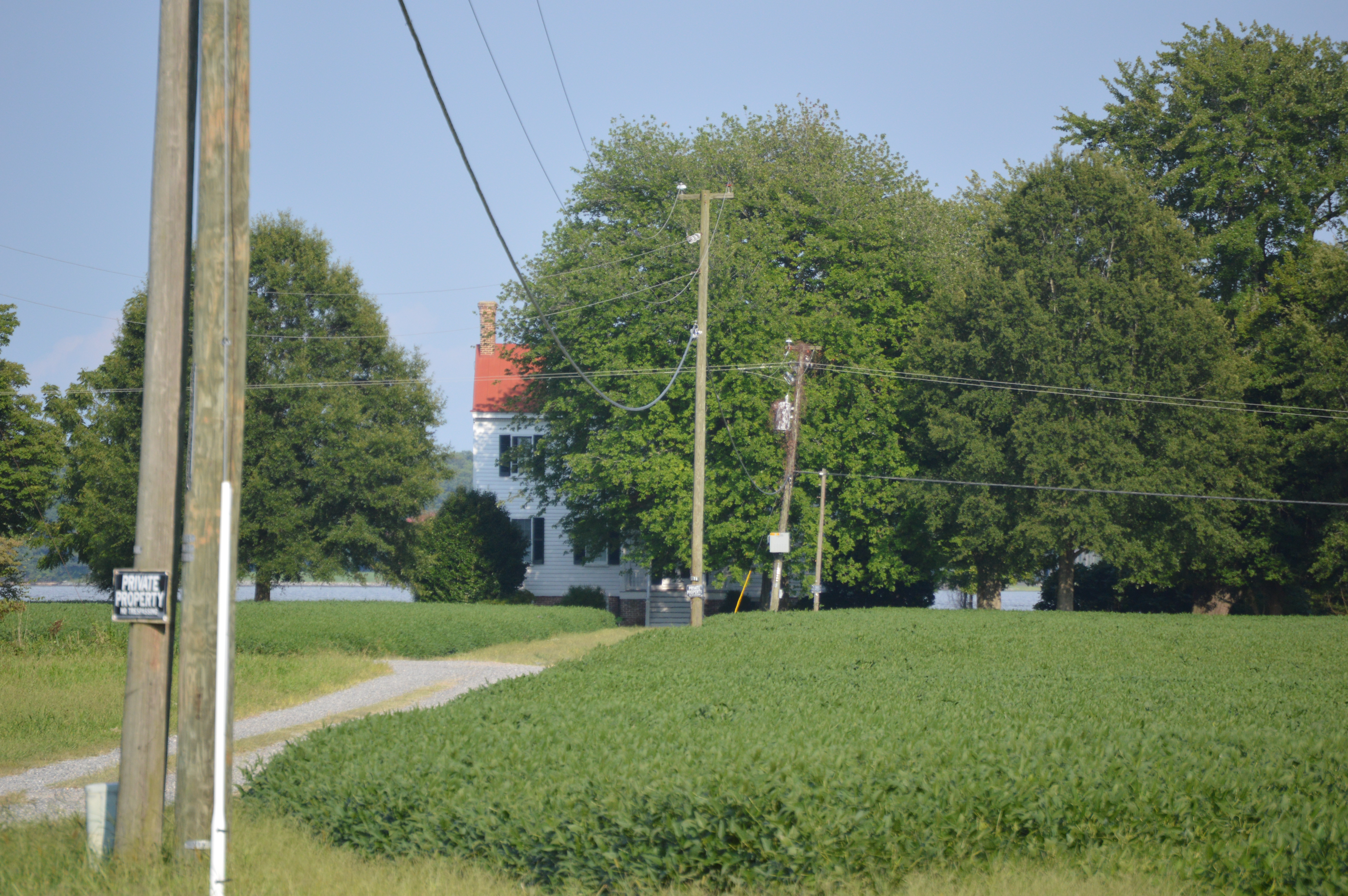 Front of and driveway to the house at the Shalango farmstead, located on Sandy Point Road between Wicomico Church and Sandy Point in Northumberland County, Virginia, United States. Built in 1856, it is listed on the National Register of Historic Places.